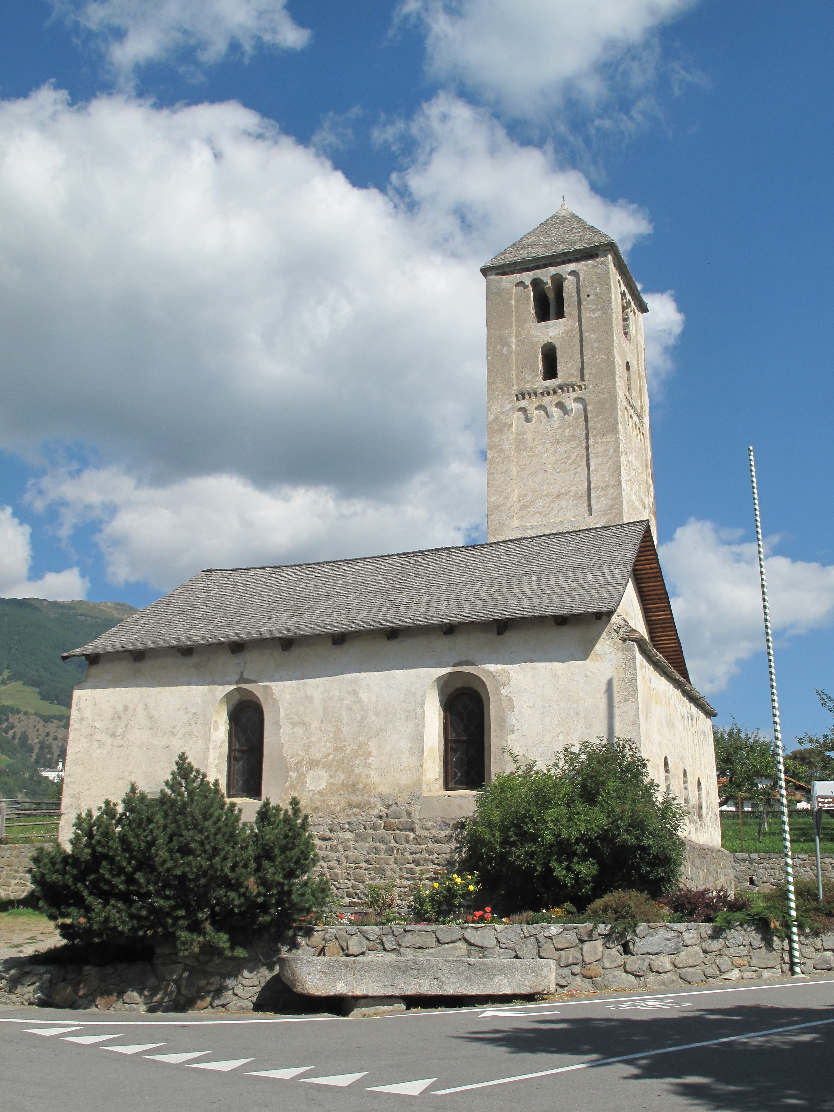 Mals, church (Sankt-Benedikt-Kirche)